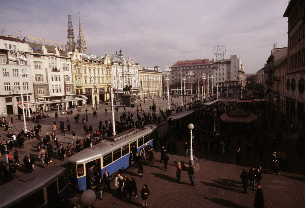 The Ban Jelačić Square in Zagreb, the capital of Croatia.